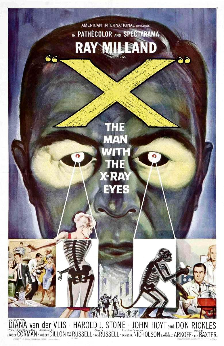 Poster of the movie X: The Man With X-ray Eyes.